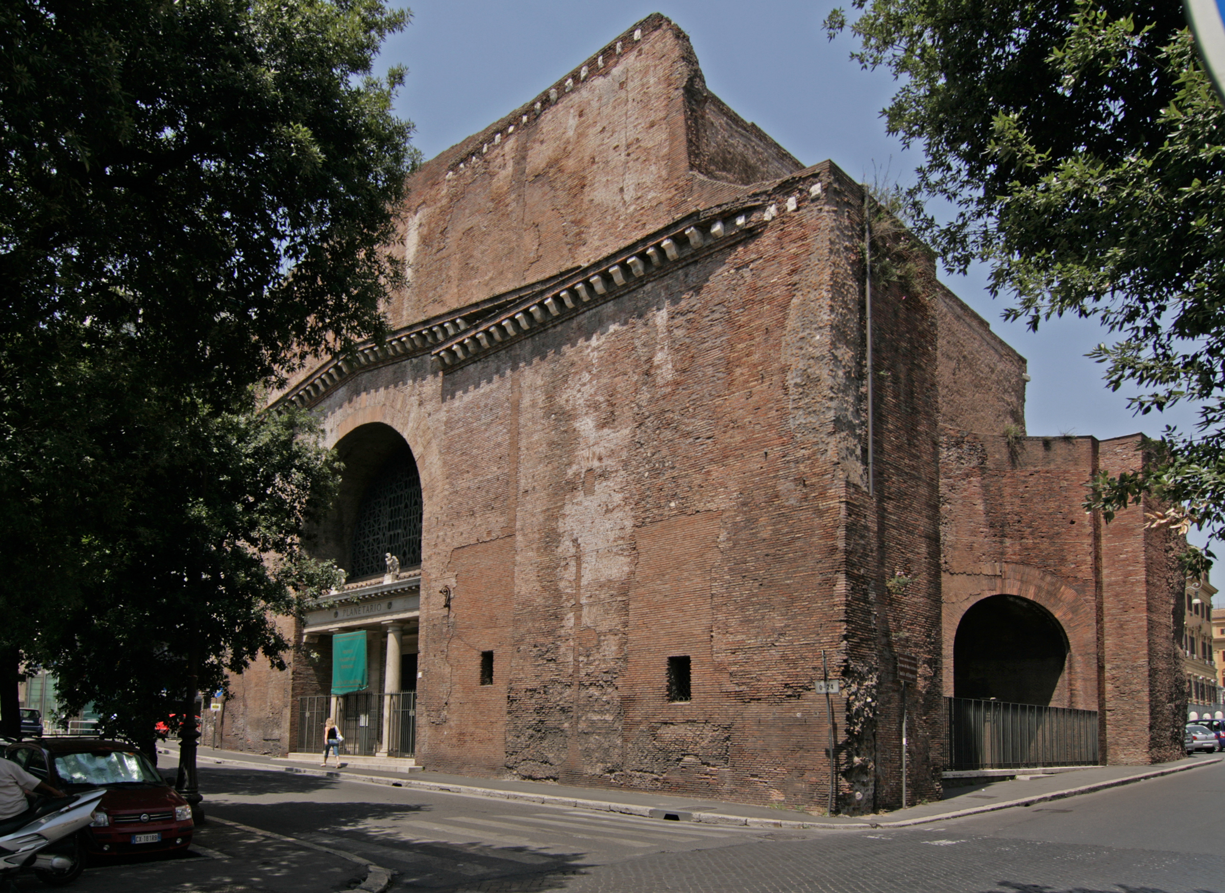 Baths of Diocletian - Planetarium (Piazza della Repubblica and Via Cernaia).